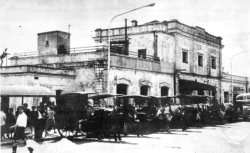 Merlo Railway Station, built by BA Great Southern Railway.